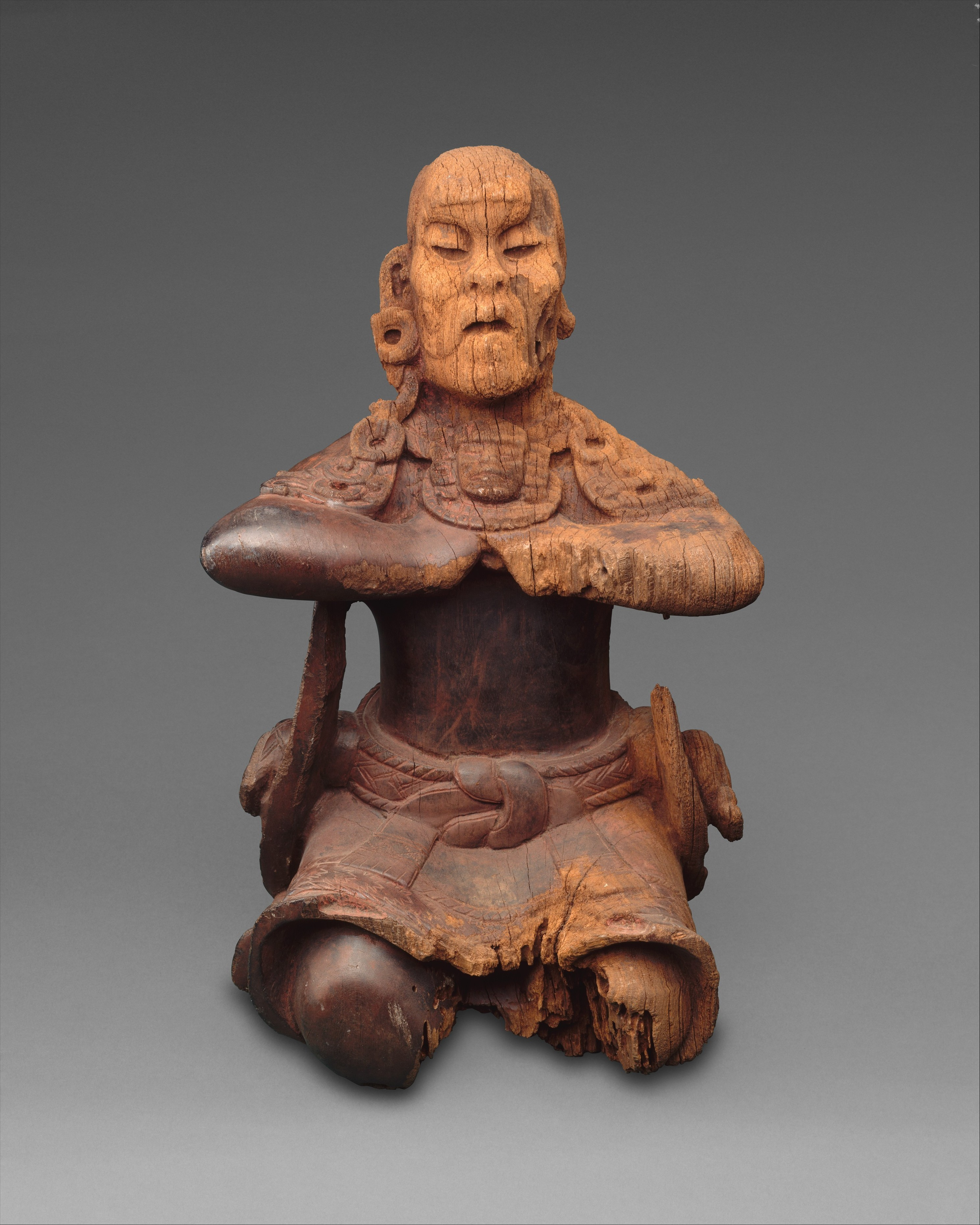 Maya; Male figure; Wood-Sculpture